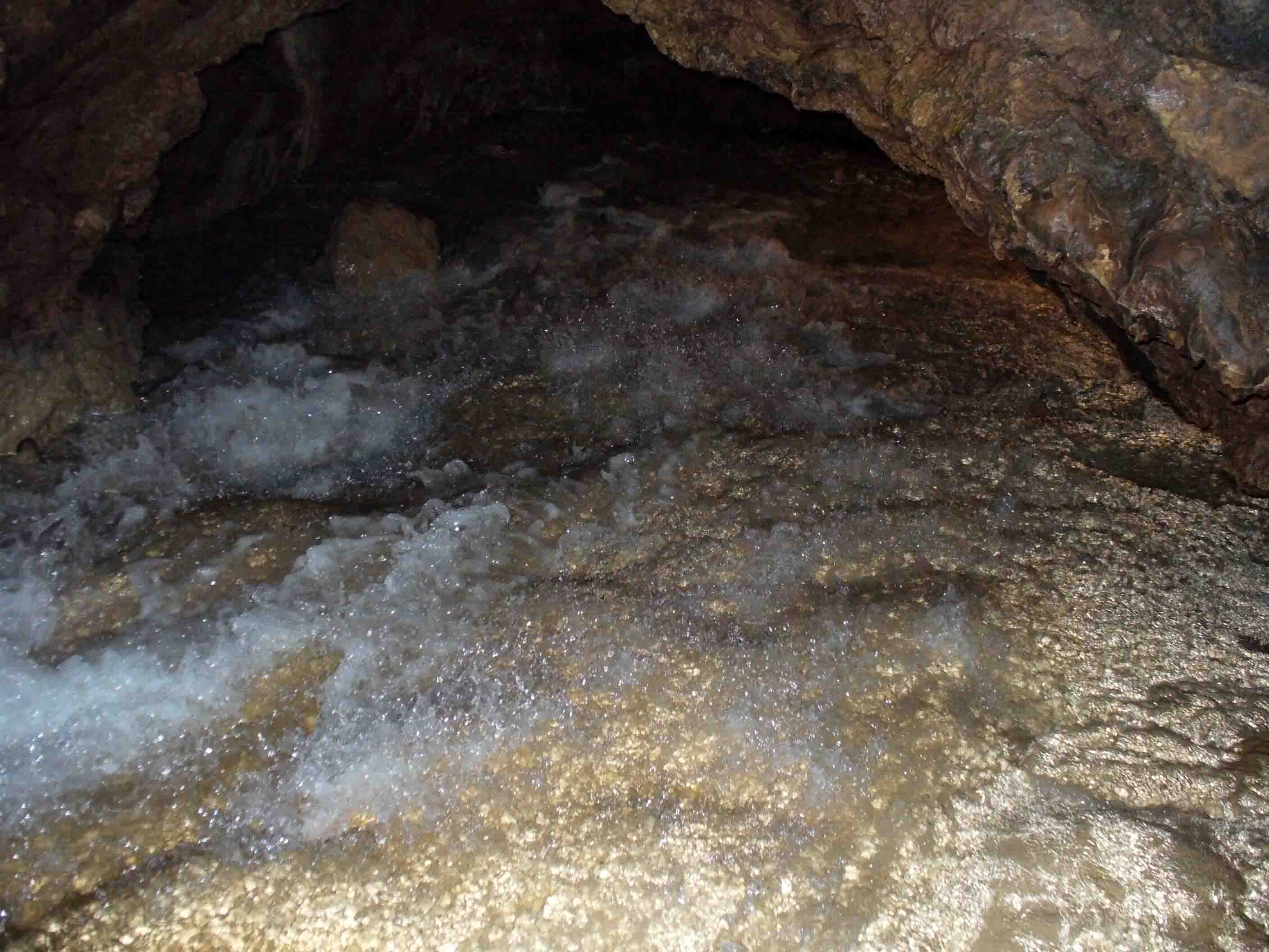 Rapids on the underground river in Kyzyl-Koba cave, Crimea.